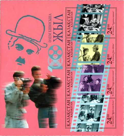 Stamp of Kazakhstan